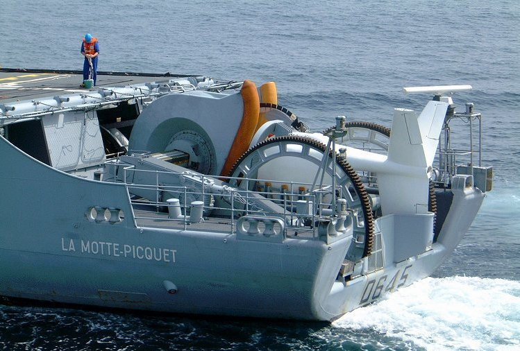 (no responsibility is taken for the correctness of this translation) The F70 type frigates (here, Motte-Picquet) are fitted with VDS (Variable Depth Sonar) type DUBV43 or DUBV43C towed sonars